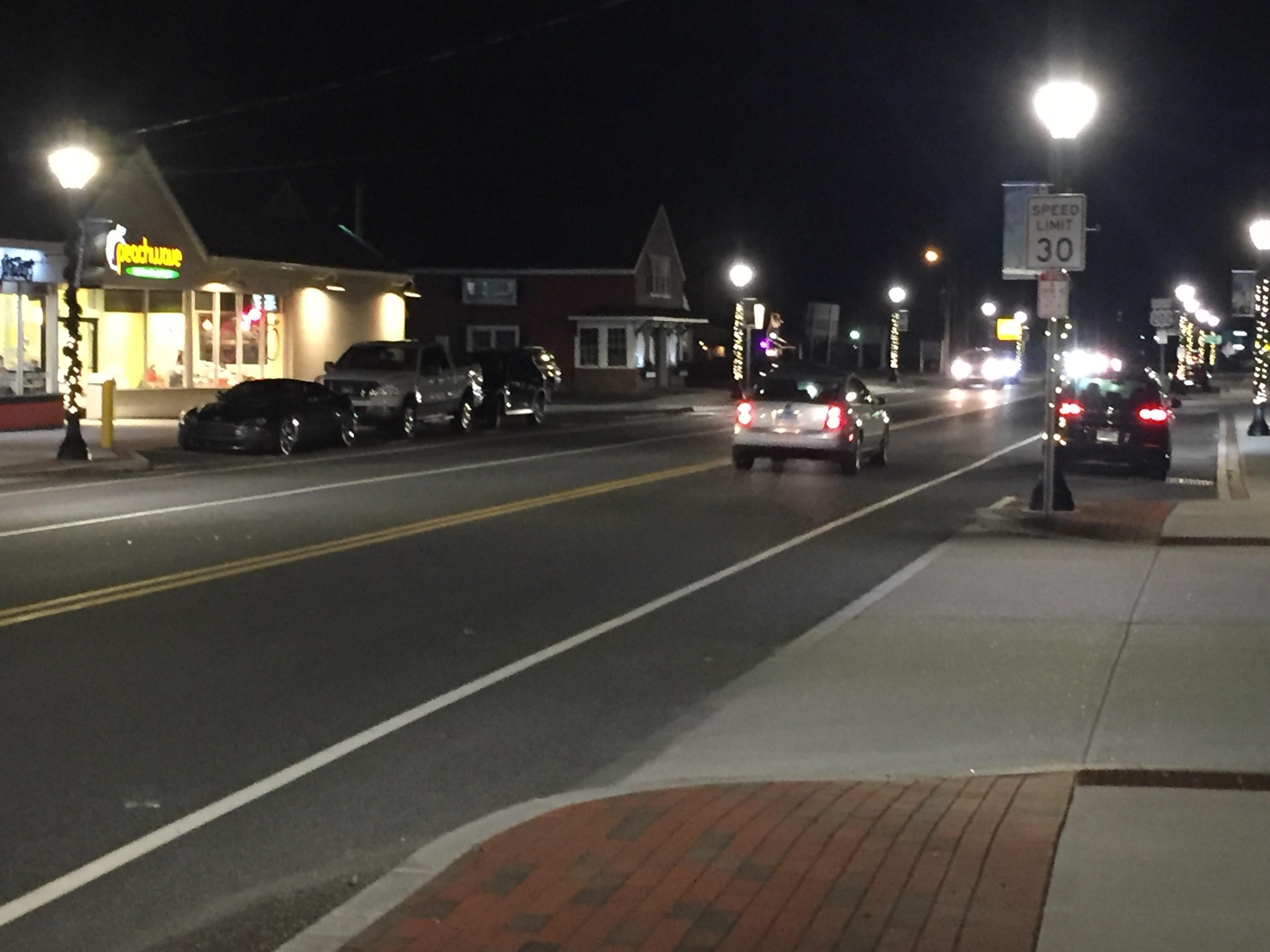 This image is displaying the Brookfield Town Center District at night during the holidays